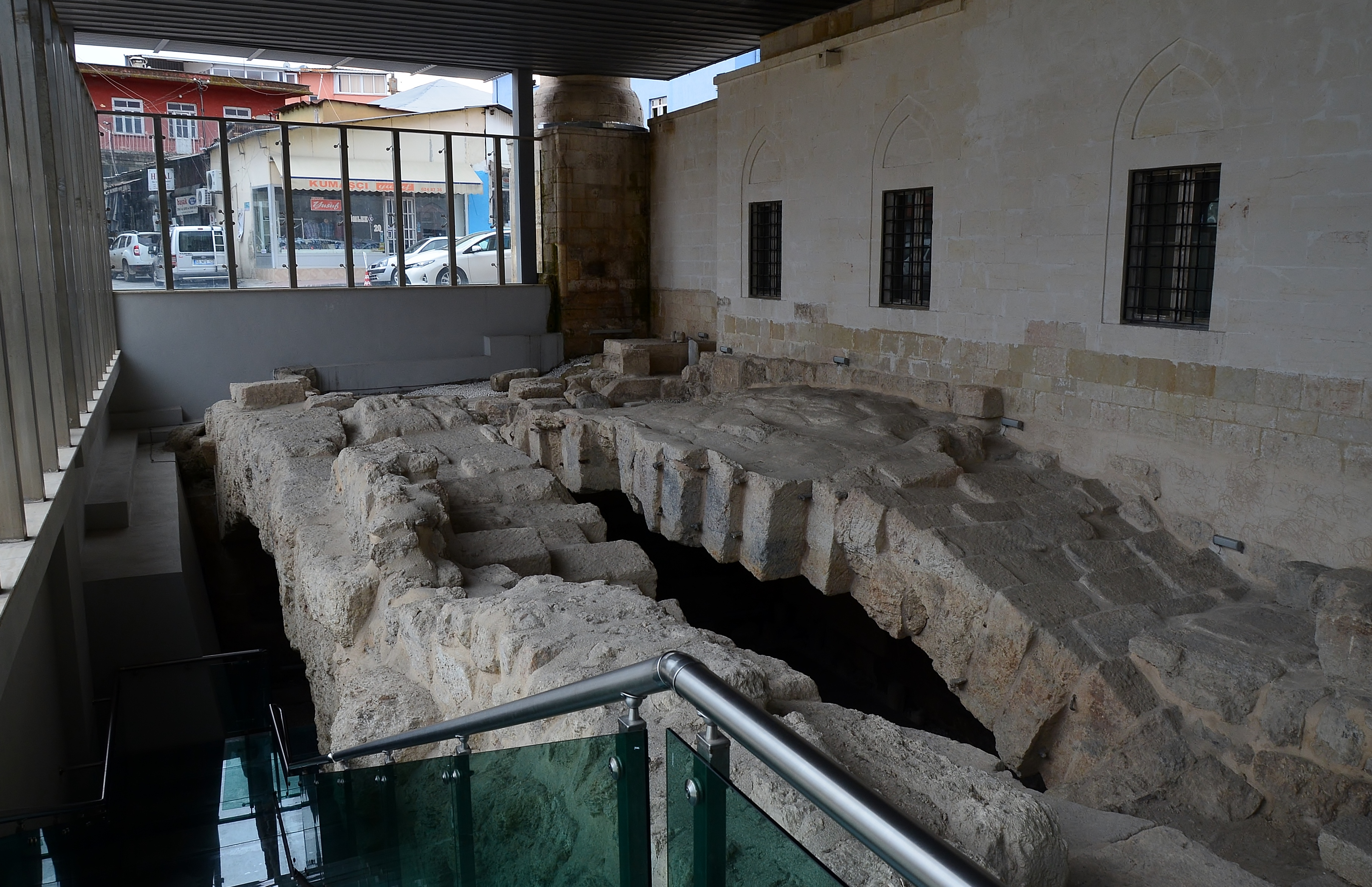 Makam-ı Danyal Mosque in Tarsus, Mersin